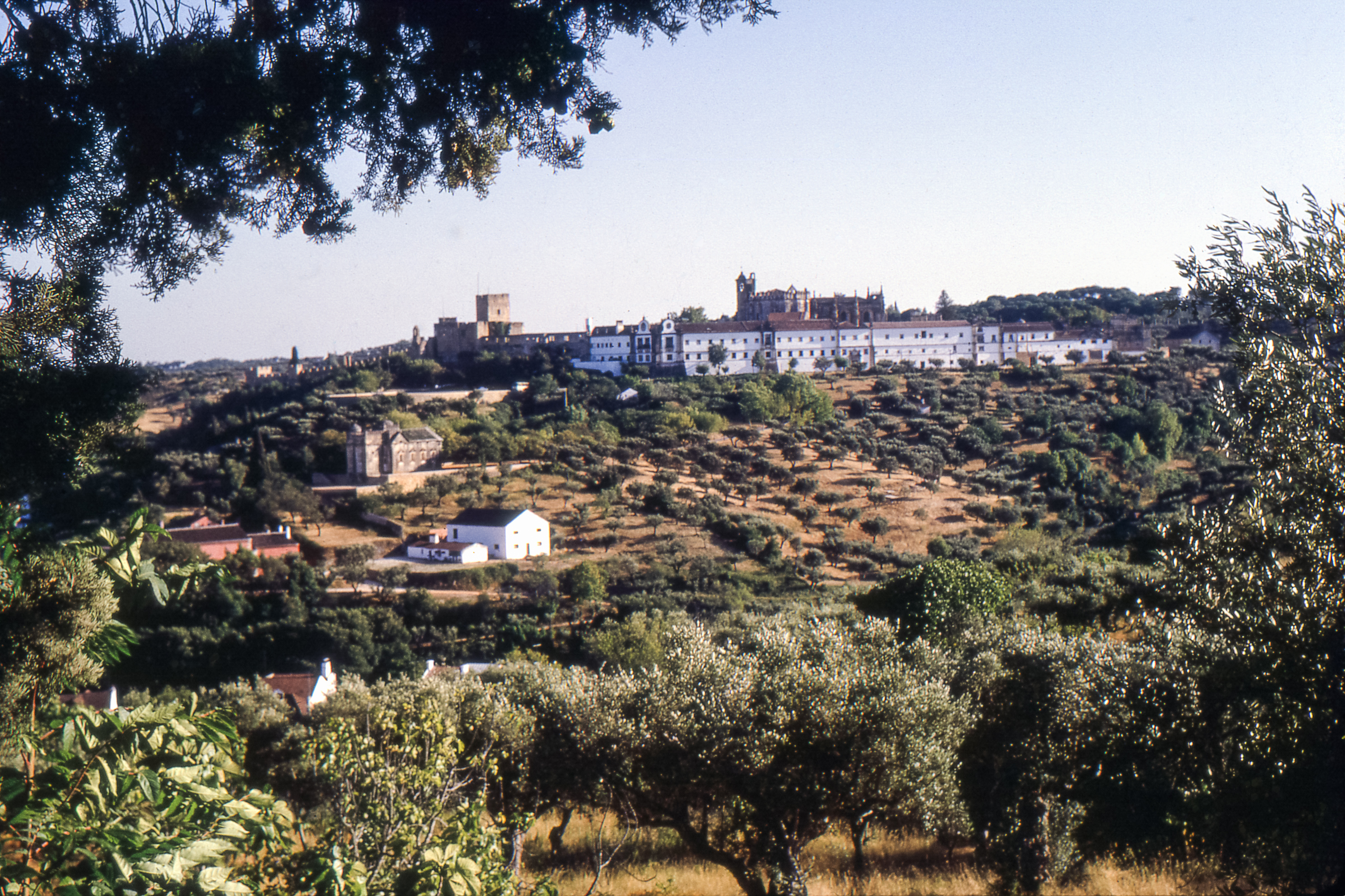 The Templars' Castle and the Convent of Christ.